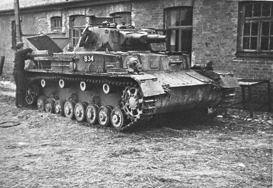 Panzer IV, Ausfühung A, before the war 1939.